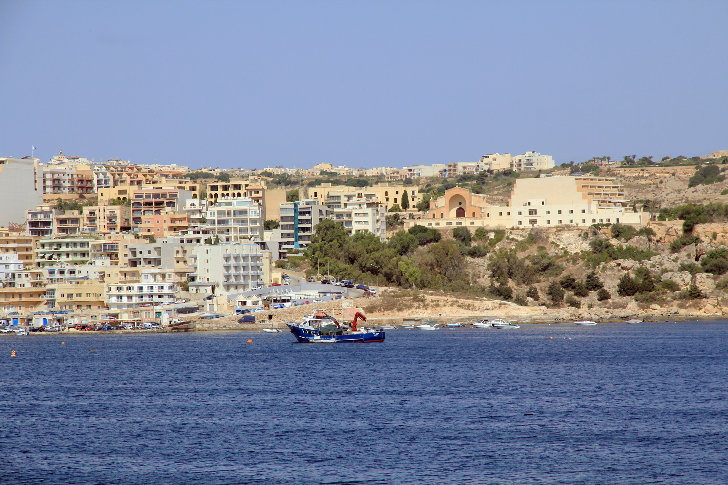 Small town Xemxija, image taken from the St. Paul's Bay, Malta